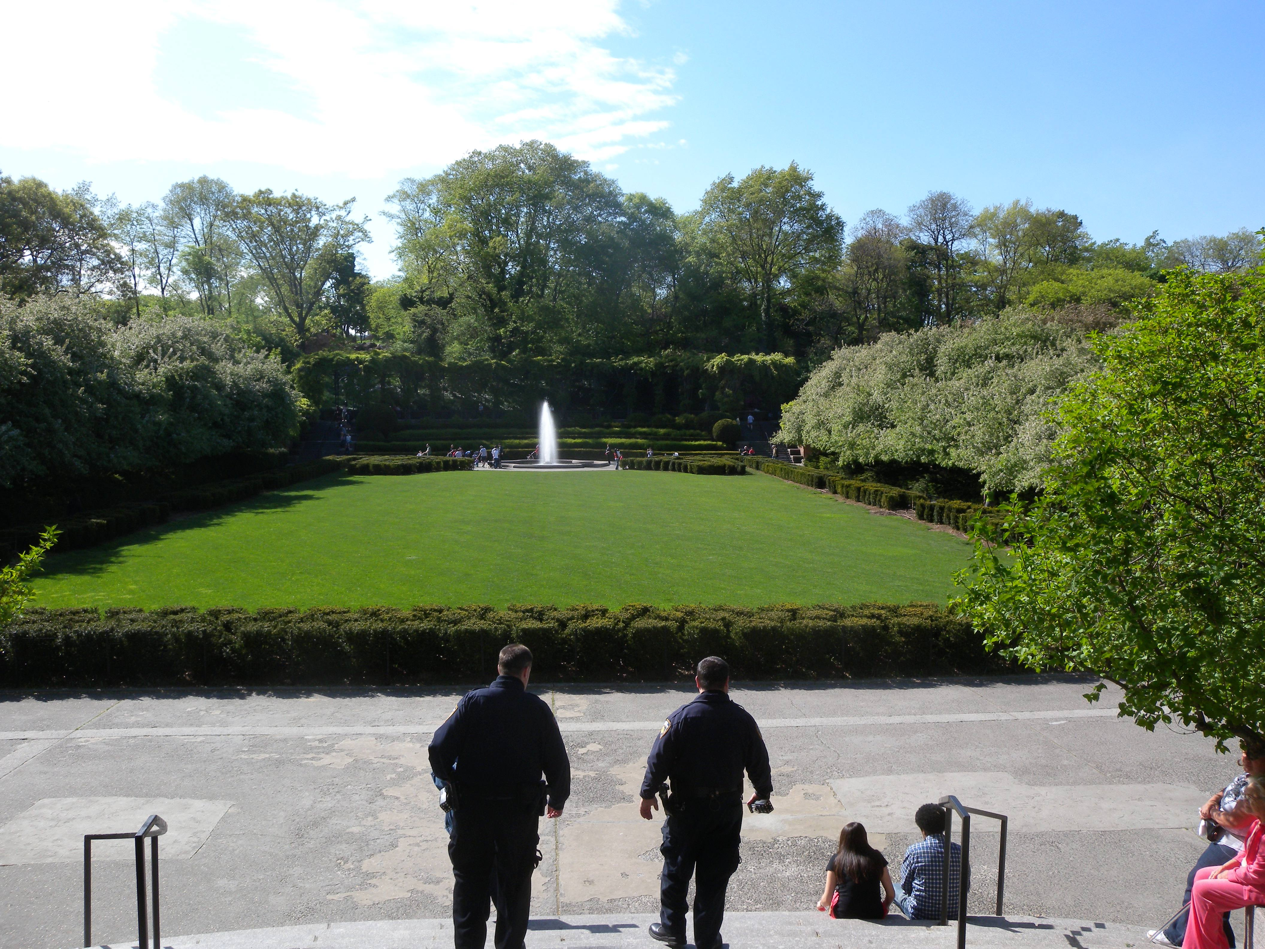 Looking east into central lawn of Conservatory Garden as two policemen stand guard.